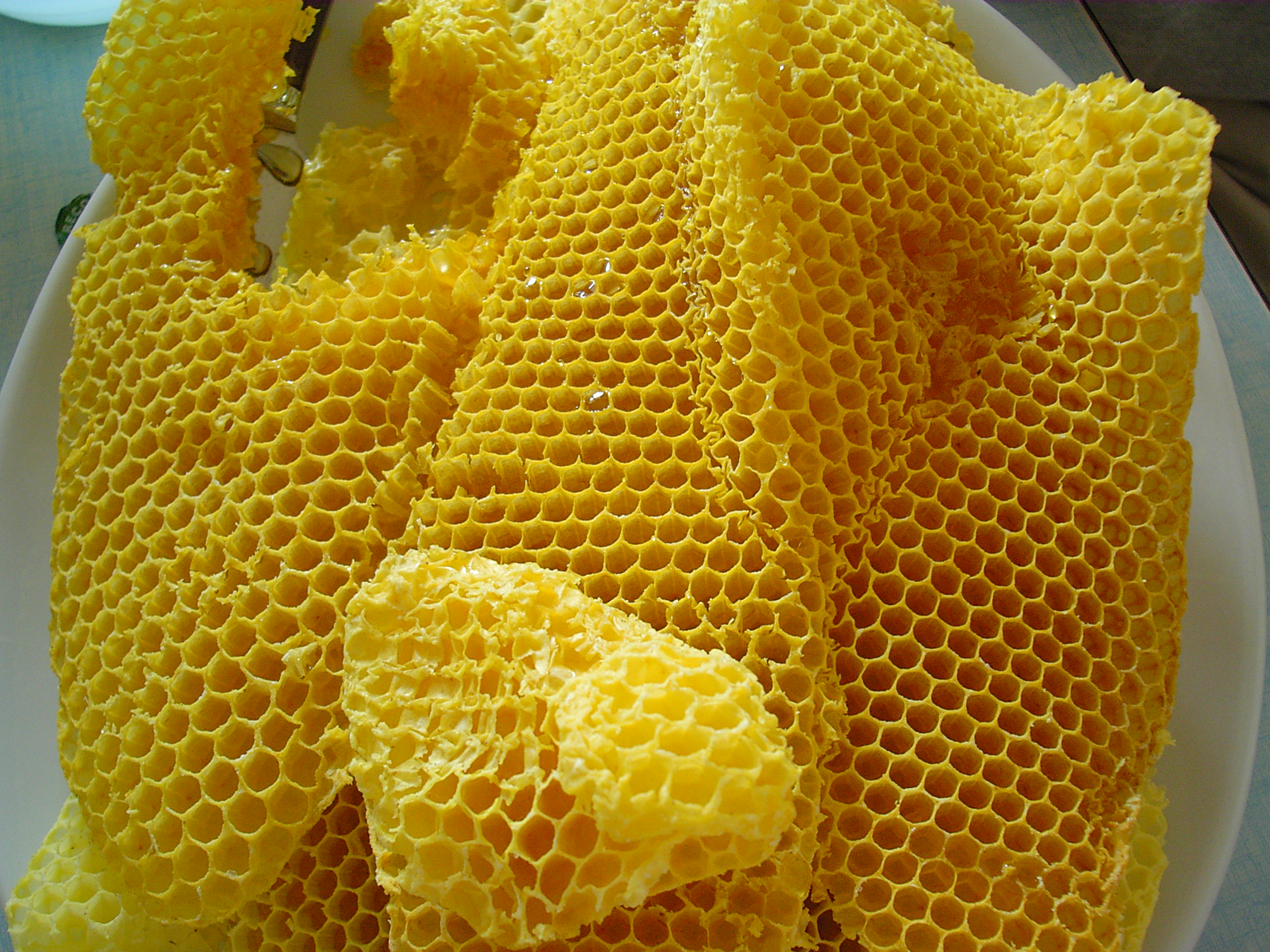 Honeycombs made of wax and full of honey, built by black bees (Apis mellifera mellifera).